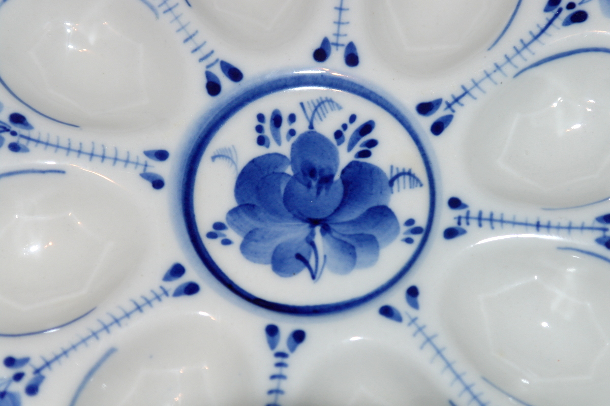 A plate for eggs, Gzhel ceramics factory, Russia. Porcelain. Glaze is on top of the paining. 100 % handwork. Size 23 x 20 cm (9 x 8 in.). Author T. Dunashova. Private collection. Detail of a painting.